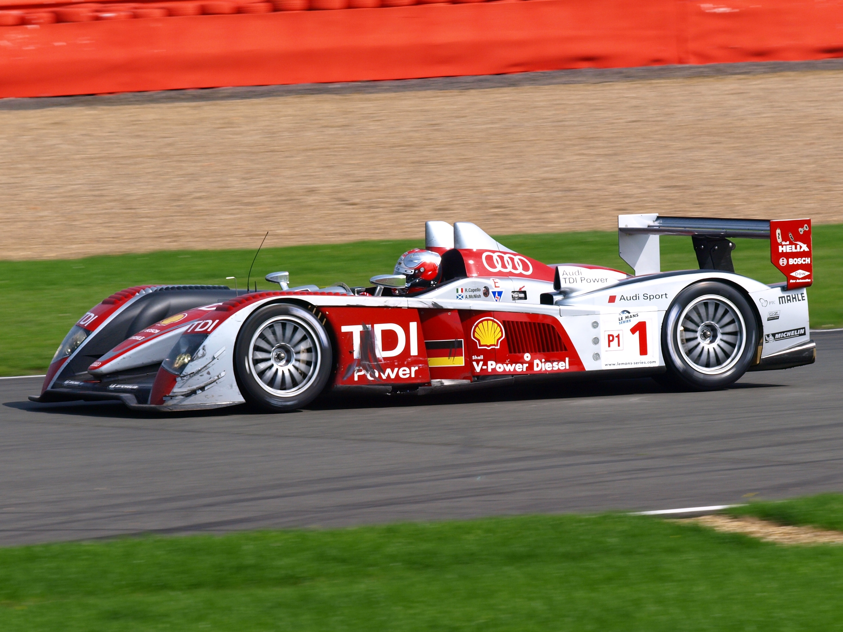 Rinaldo Capello driving the Audi R10 at the 2008 1000km of Silverstone